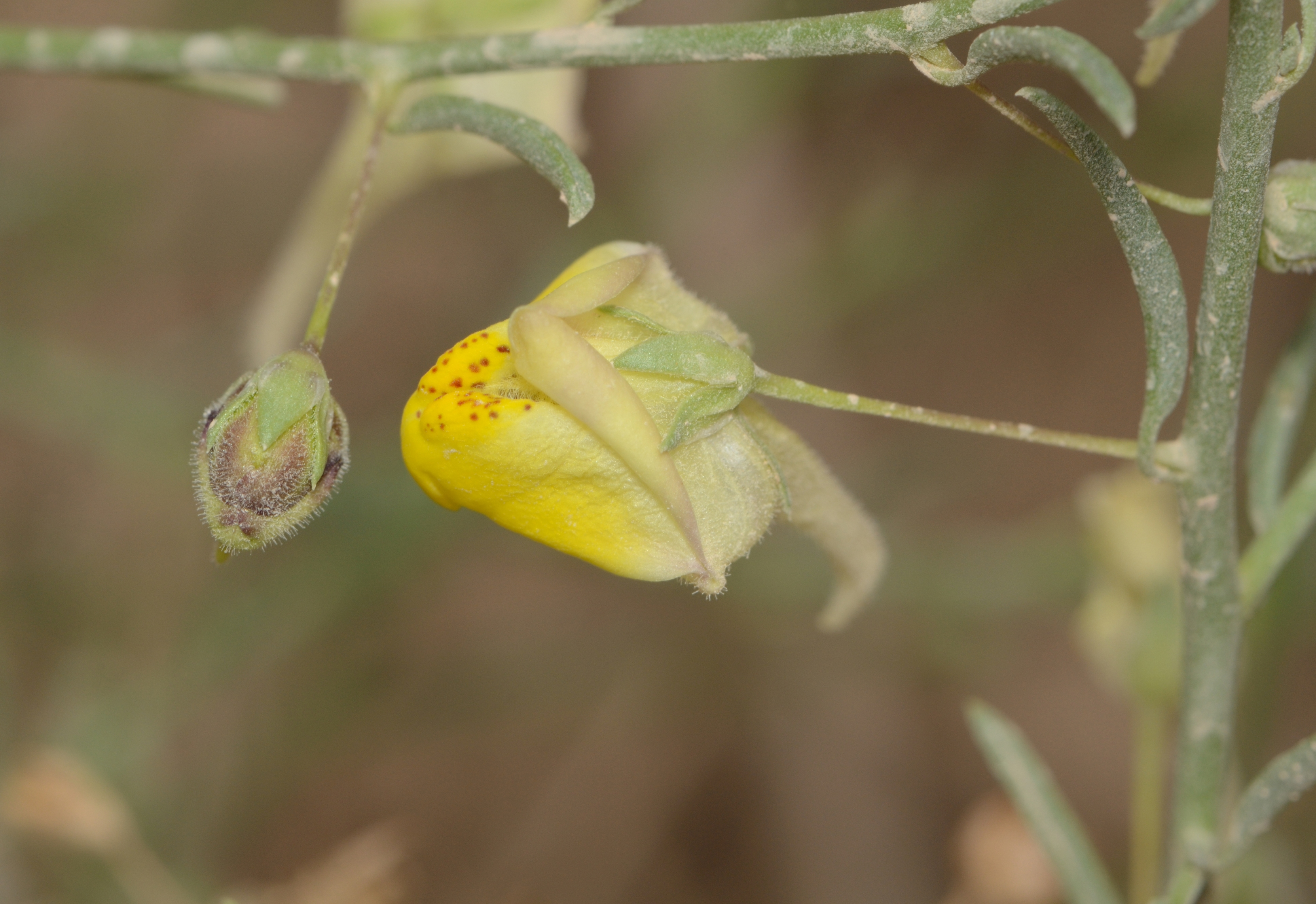 Kickxia spartioides (Brouss. ex Buch) Janch., Nahal Roded, Eilat Mountains, Israel, January 17, 2013.